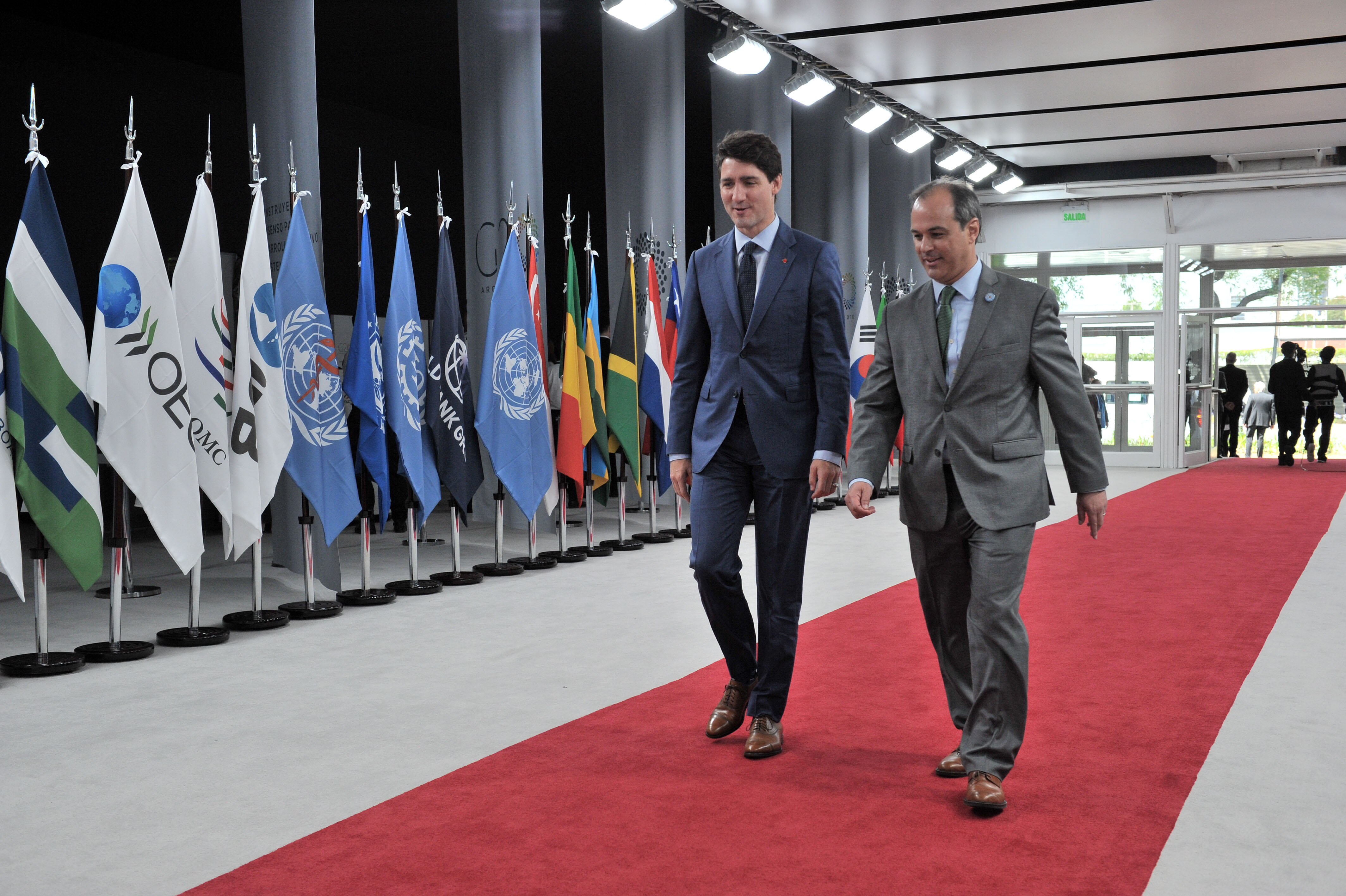 Photos at the venue